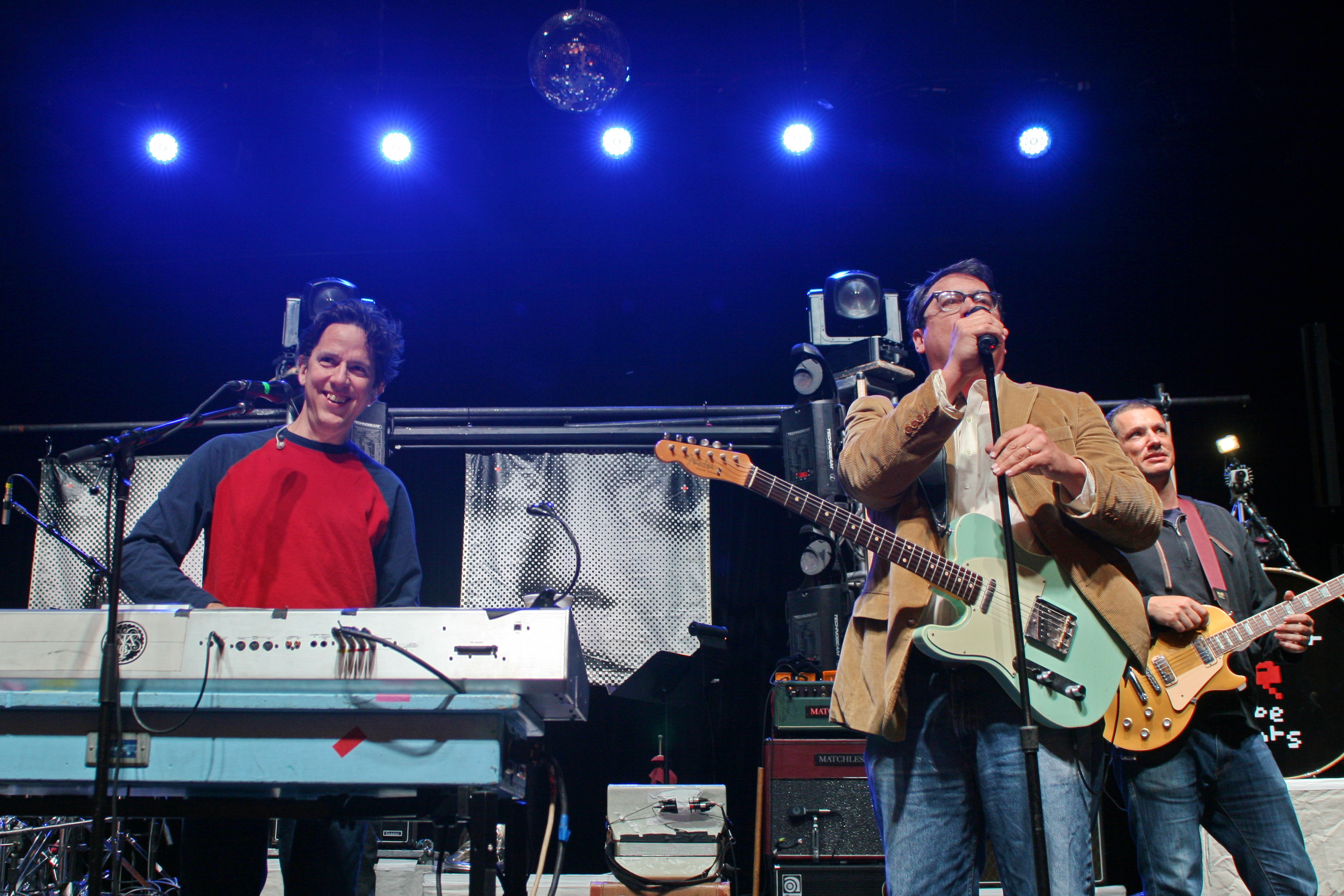 They Might Be Giants